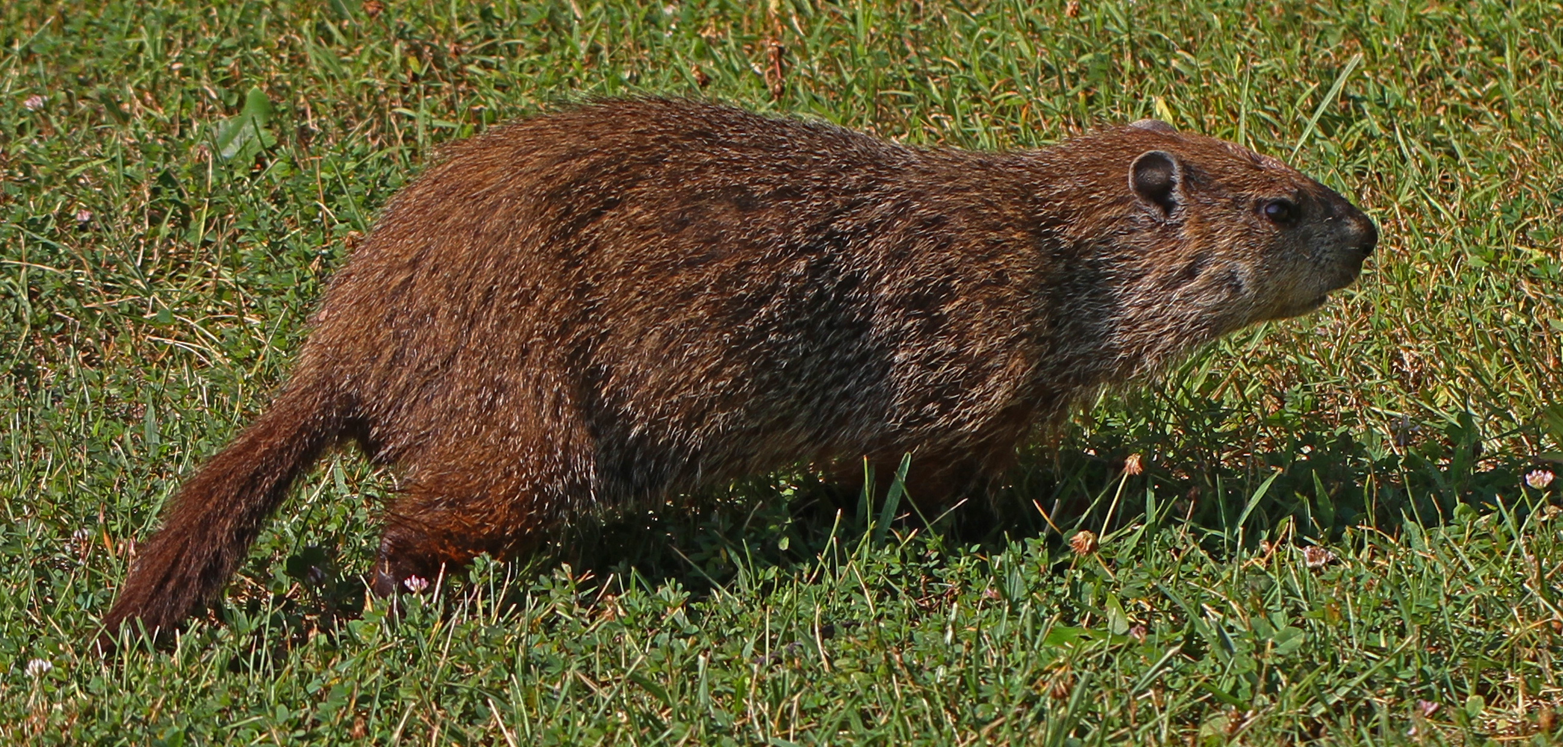 Crop of file in filename